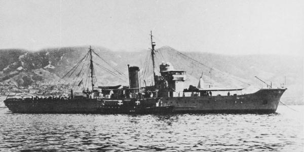 Japanese minelayer "Kamome" at Kure.